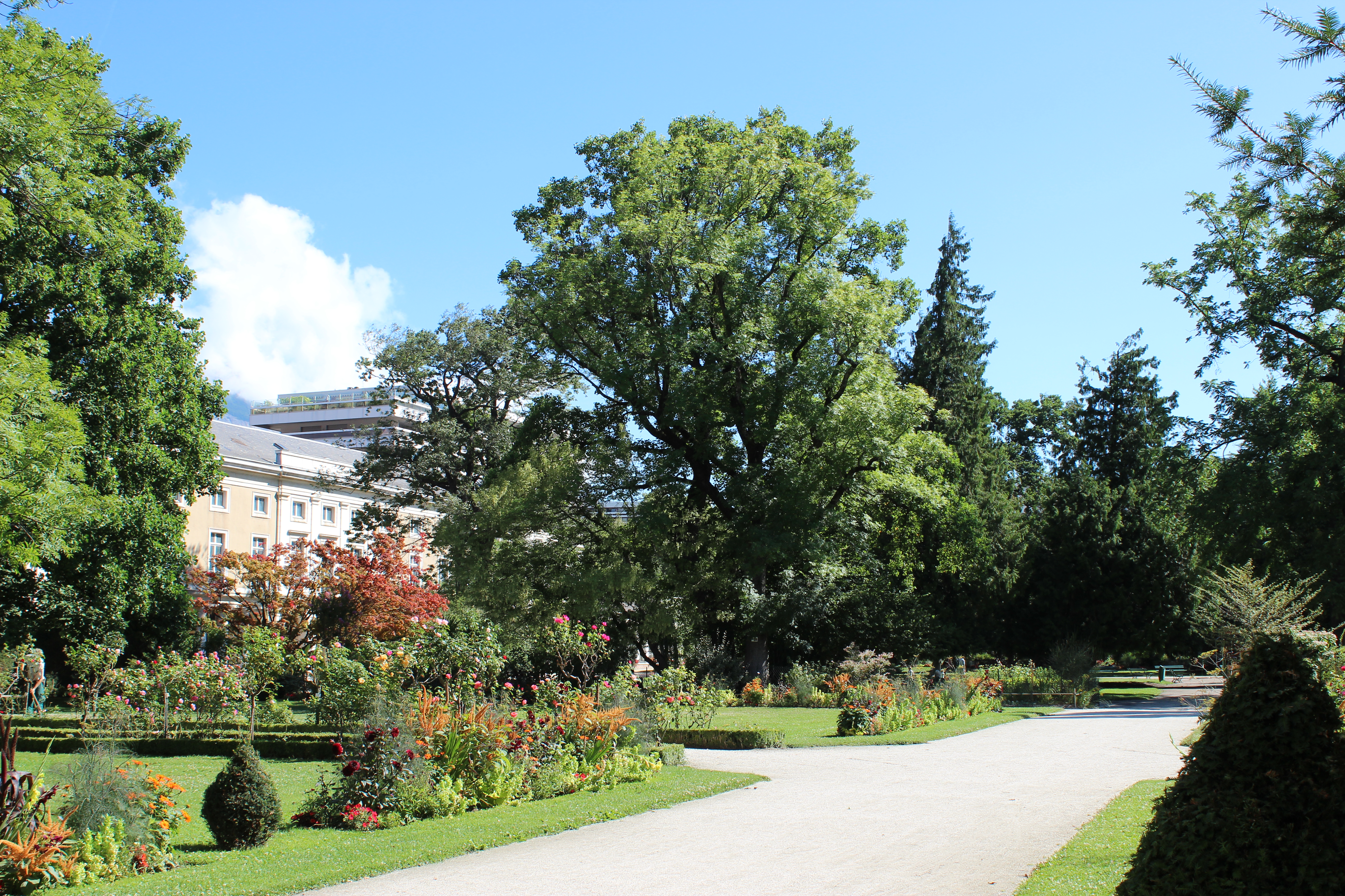 View of the Jardin des Plantes in Grenoble from the entry to 'Rue Haxo'.